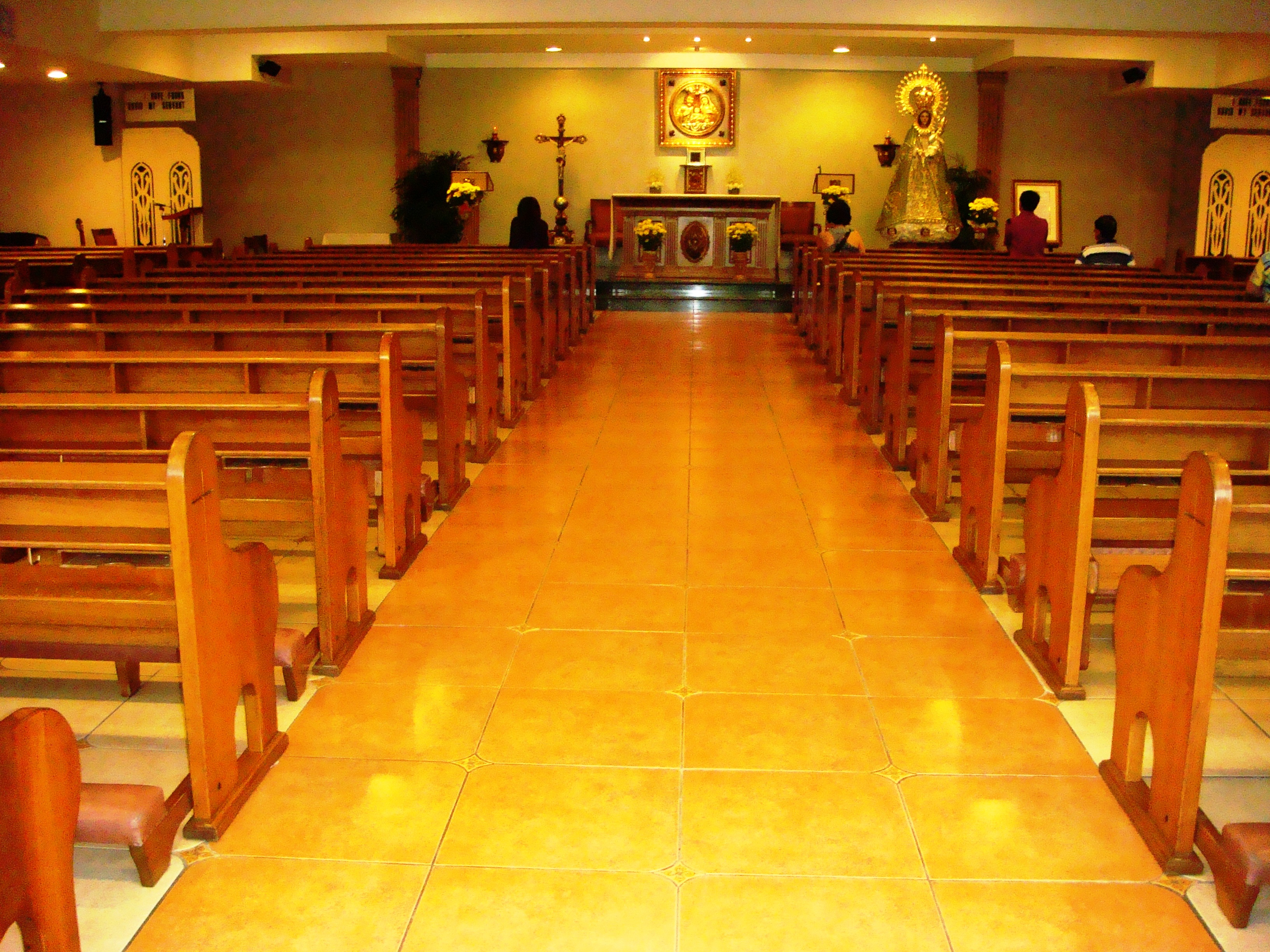 Main altar of The Holy Family Chapel, Greenhills Shopping Center